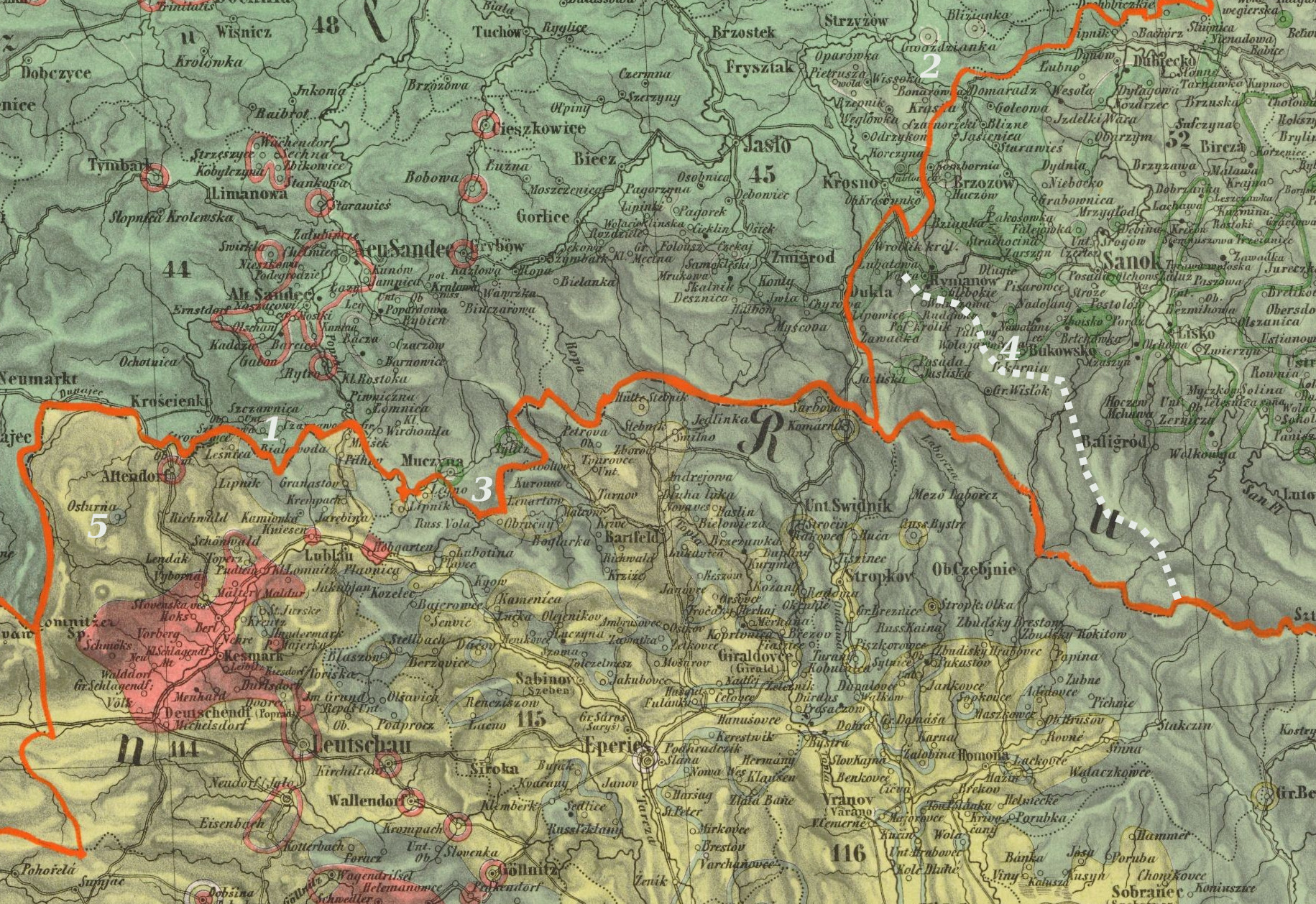 The territory of the westernmost East Slavs (Lemkos) on an austrian map from 1855